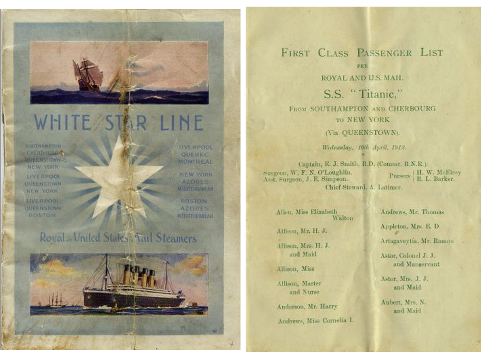 The brochure carried by Marian Thayer in her overcoat when she escaped from the sinking of the Titanic. This brochure was made for the maiden voyage of the Titanic and contained the first class passenger list